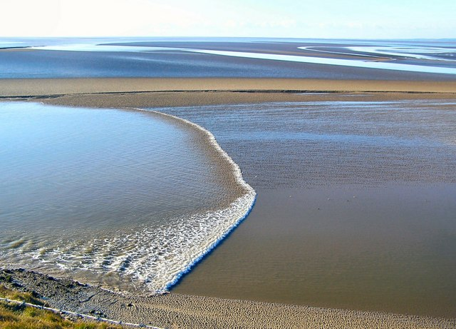 Tidal Bore The channels are constantly changing and consequently not shown on the OS map. Here the tidal bore is coming up a channel, one of several such channels in the estuary, on its way to Arnside some 8km away as the tide flows. It took 2 hours and 5 minutes to reach the viaduct at Arnside (shown in 324585) from this point.